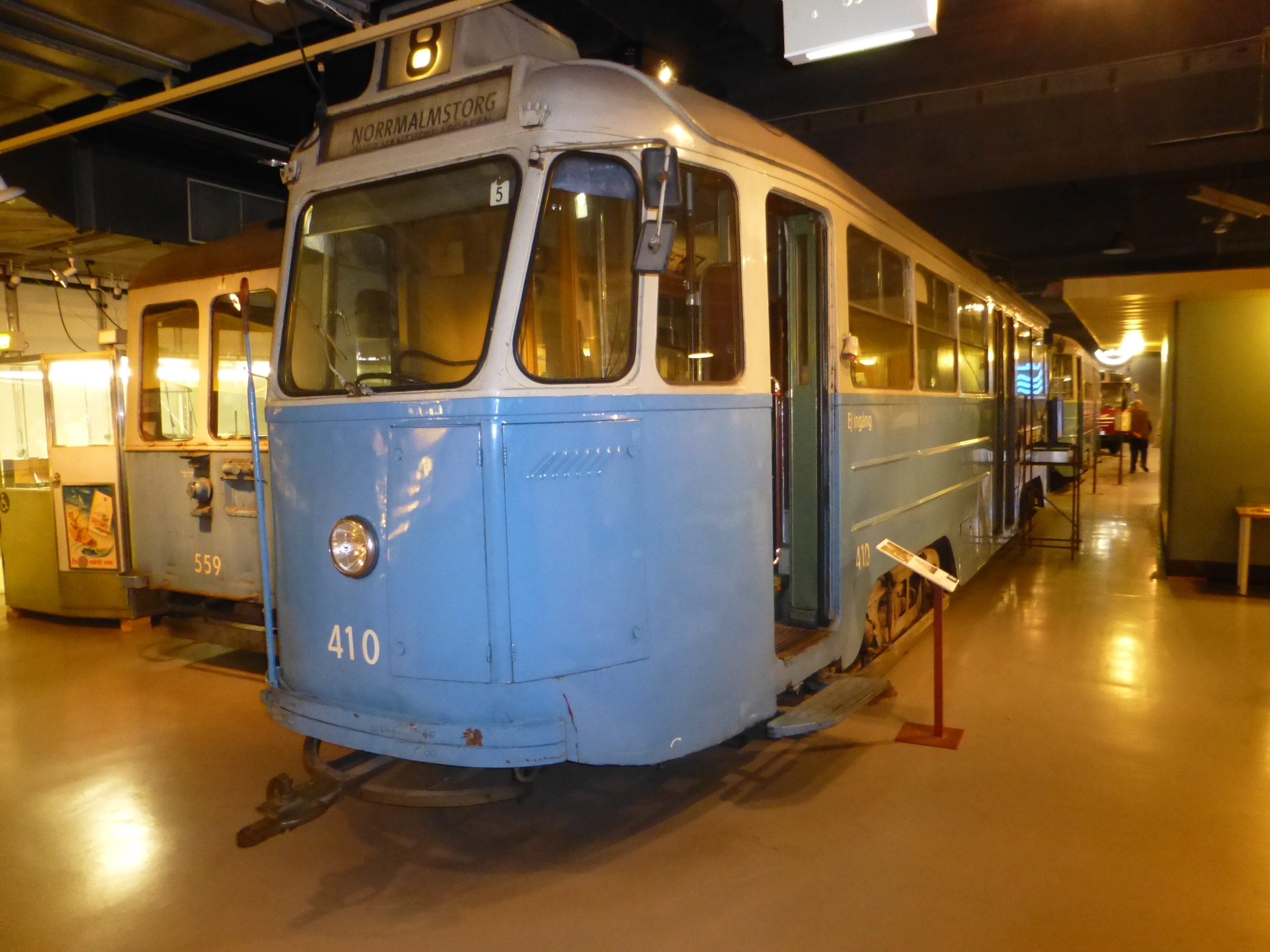 Tram from Stockholm SS A25 410 from 1946 at Spårvägsmuseet in Stockholm.